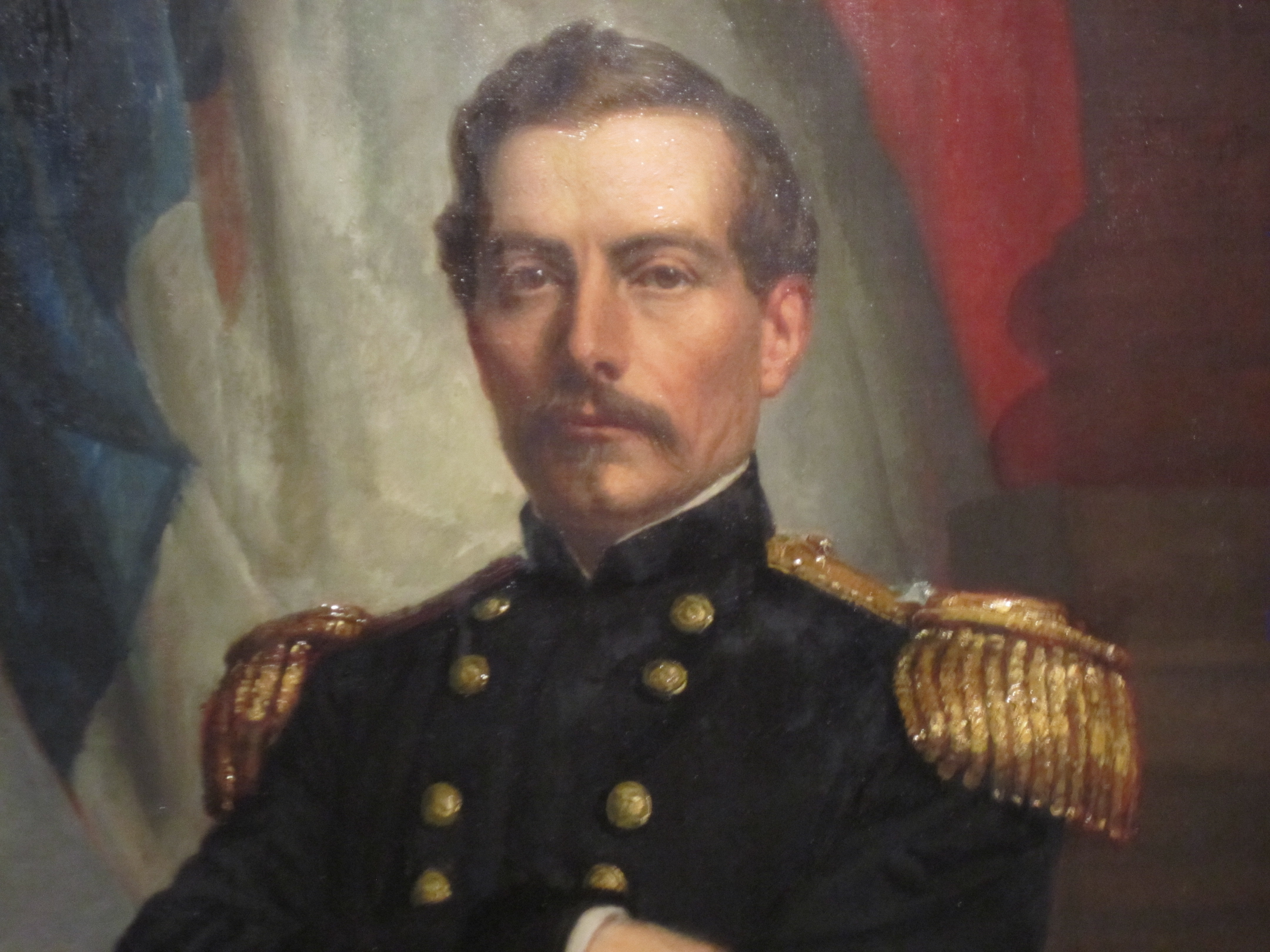 I took photo with Canon camera at National Portrait Gallery of General P.G.T. Beauregard. Public domain.